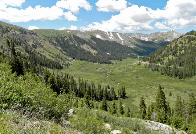 Ecosystems in the Rocky Mountain Region are connected by water; future climate in this region is projected to see warming temperatures that are likely to reduce snowpack and affect water moving from the mountains to the plains.